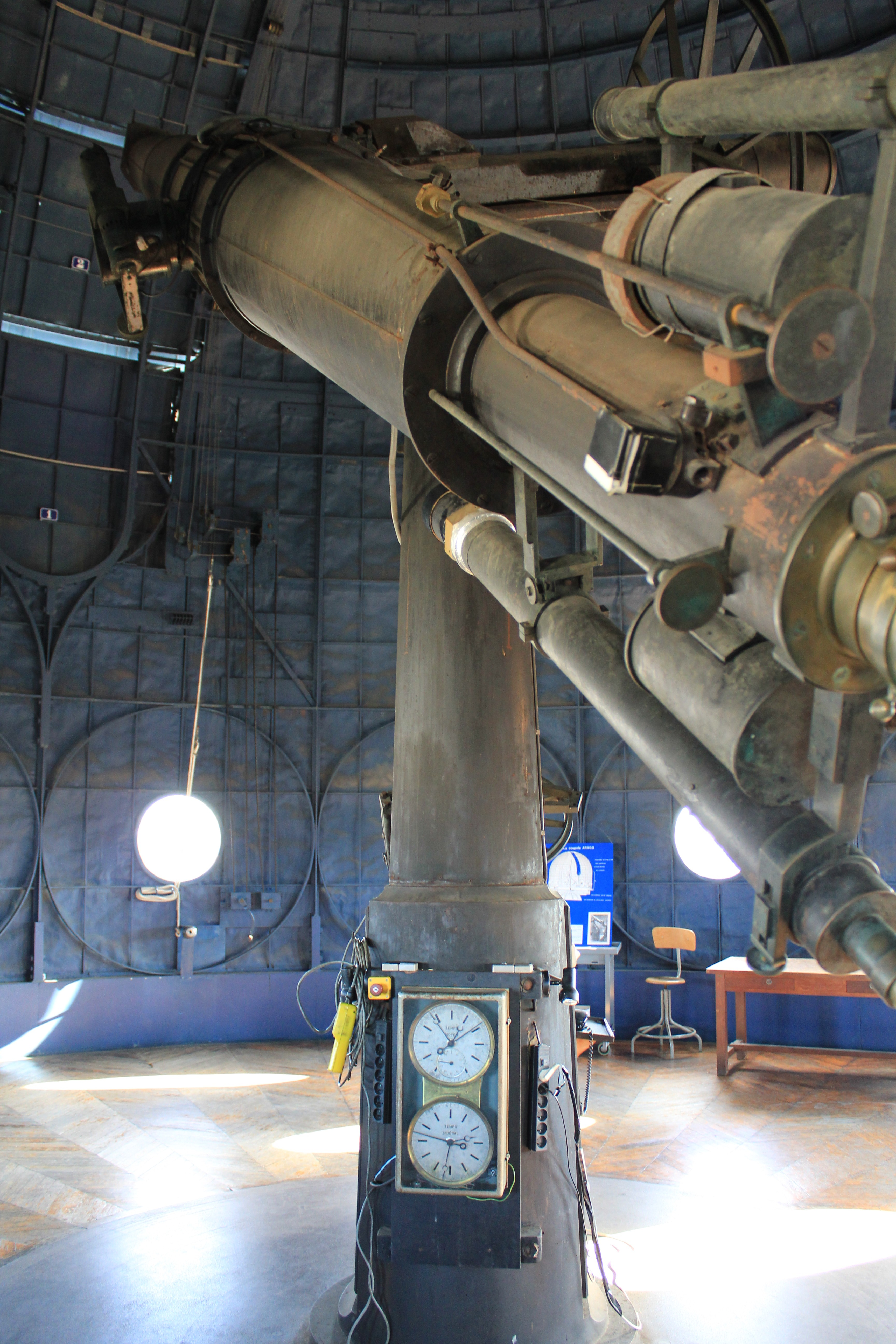 Refracting telescope from Paris Observatory